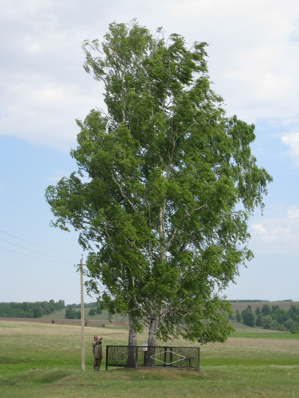 Silver Birch trees. Object of worship (keremet`) in the village of Chuvash people